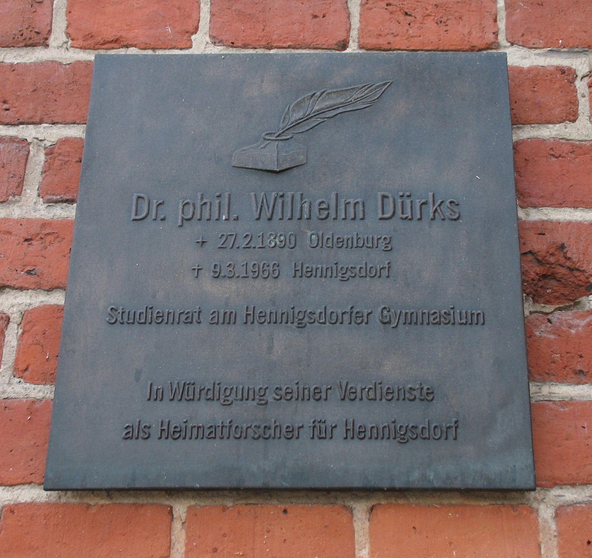 Memorial tablet for Wilhelm Dürks in Hennigsdorf in Brandenburg, Germany